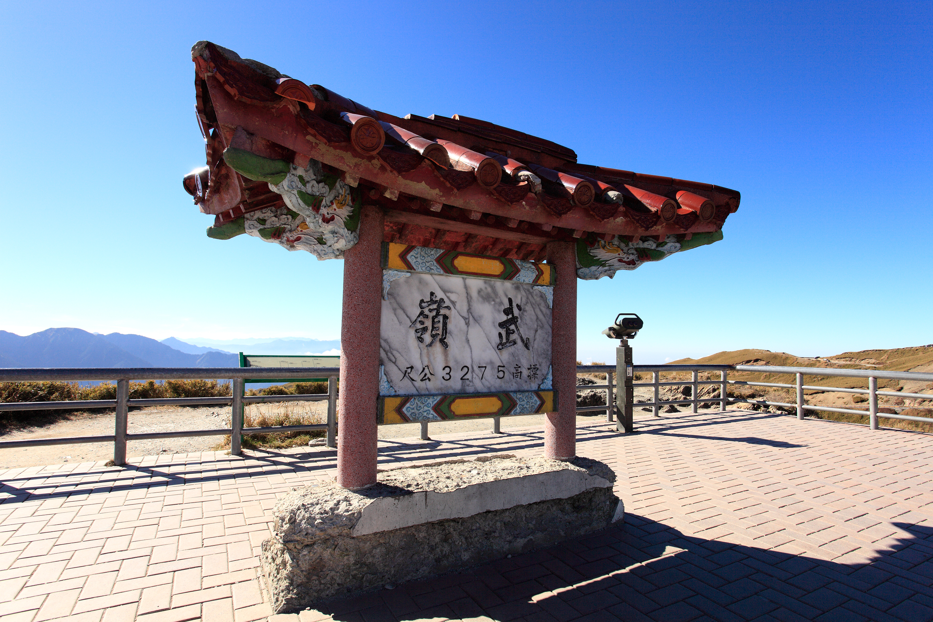 Wuling side angle.